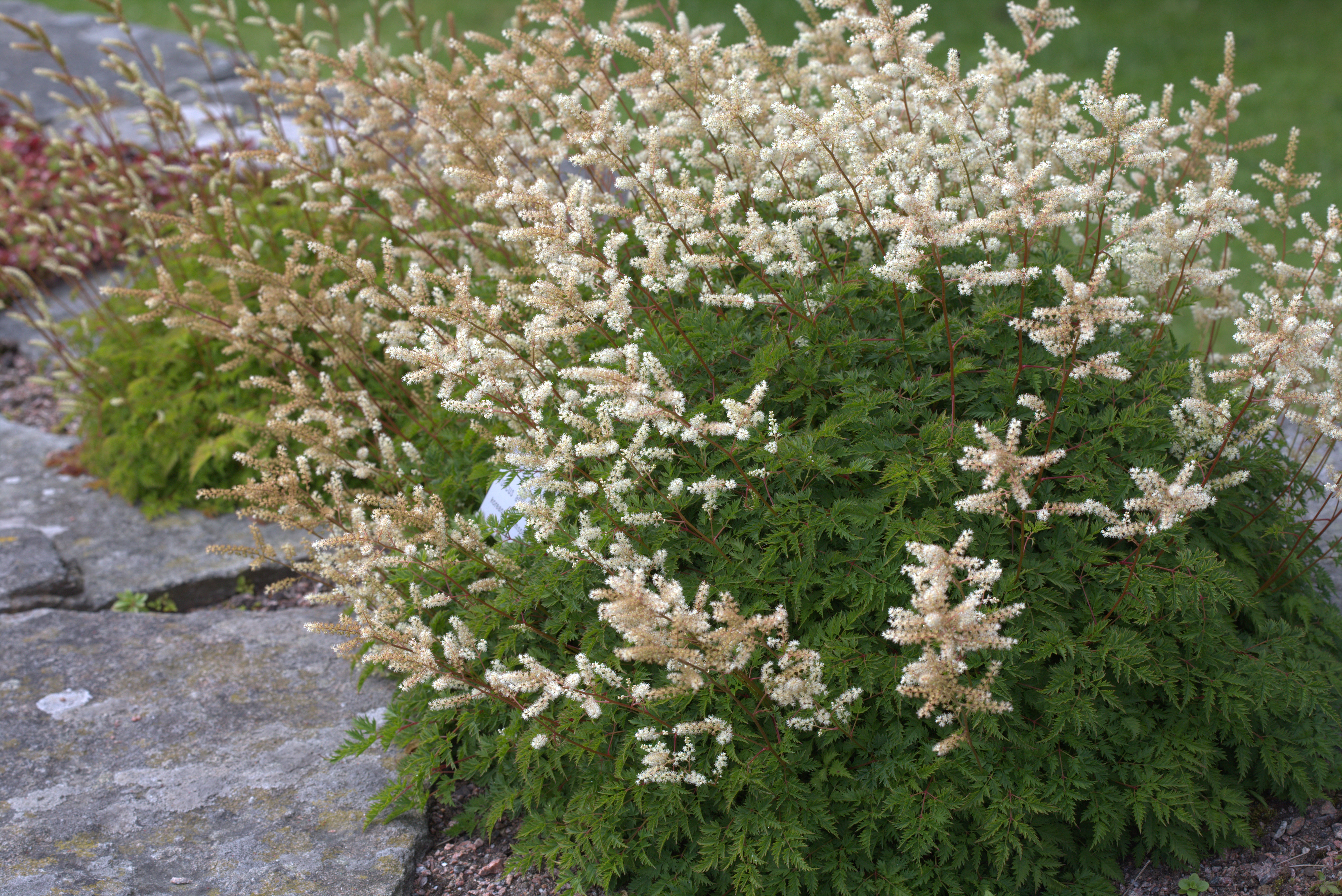 Aruncus aethusifolius in Gothenburg Botanical Garden 2015. Plant id: 1991-1896 p G.